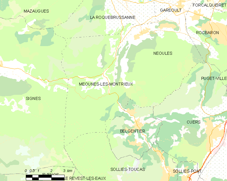 Map of French municipality Méounes-lès-Montrieux